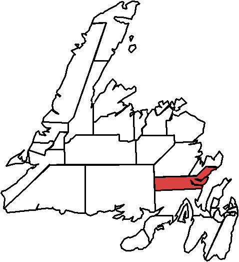 Maps based on images by Earl Warren, from the 2007 elections